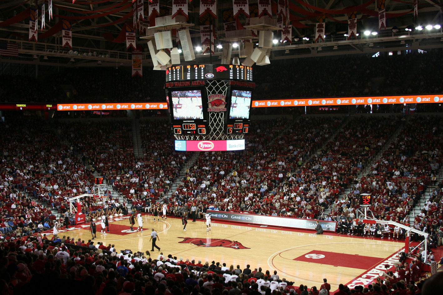 Interior view of Bud Walton Arena during the Arkansas - Georgia basketball game of March 1st, 2009.